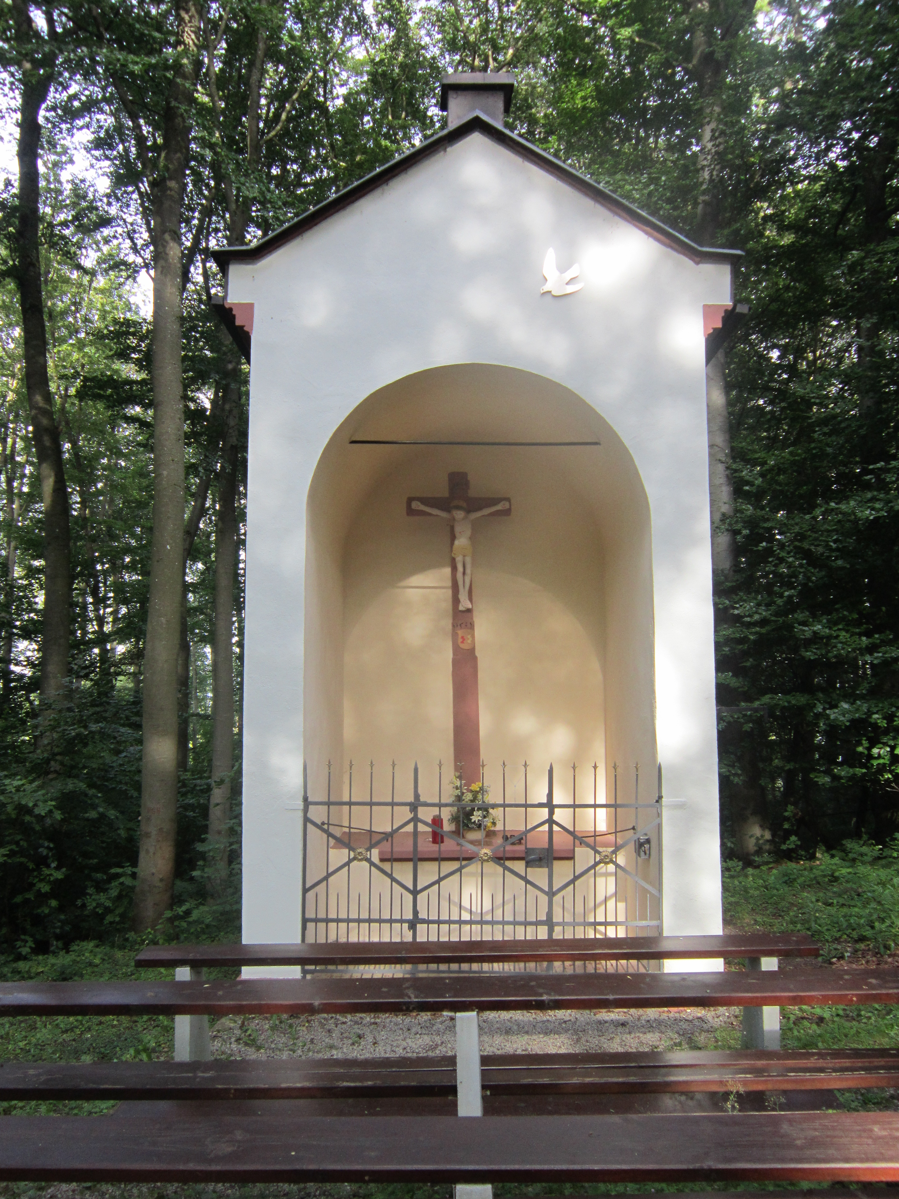 The "Sodenberg-Kapelle", a chapel at the Sodenberg, a mountain at the German town of Hammelburg in Lower Franconia (Bavaria).